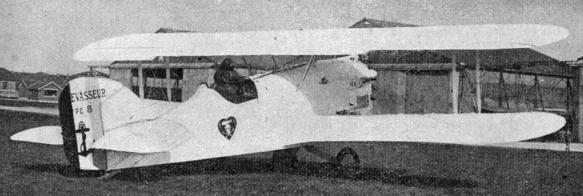 Levasseur PL.8 L'Oiseau Blanc. Photo from L'Aérophile April,1927